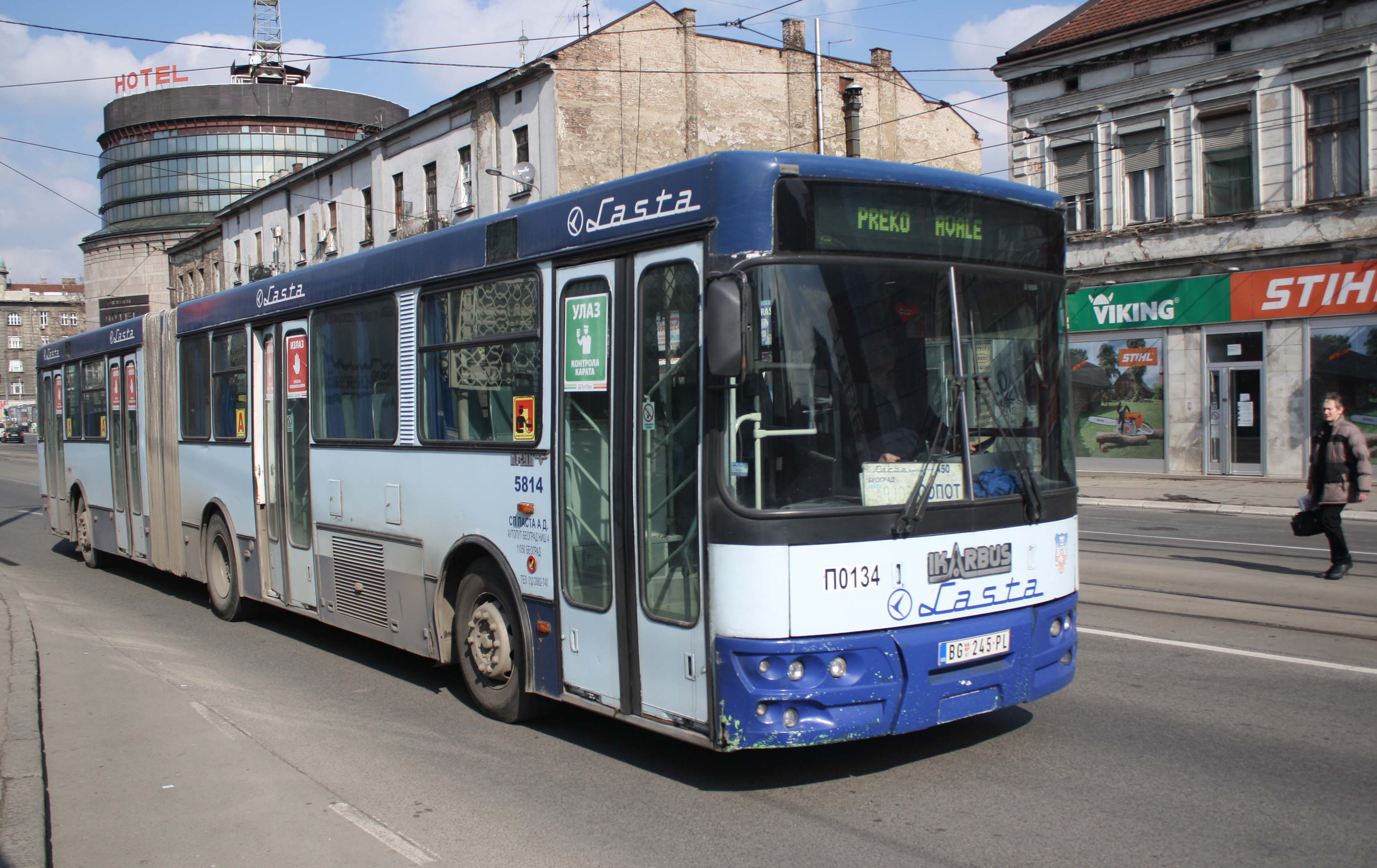 Ikarbus IK 201 city bus of Lasta Beograd bus operator near Lasta bus station.